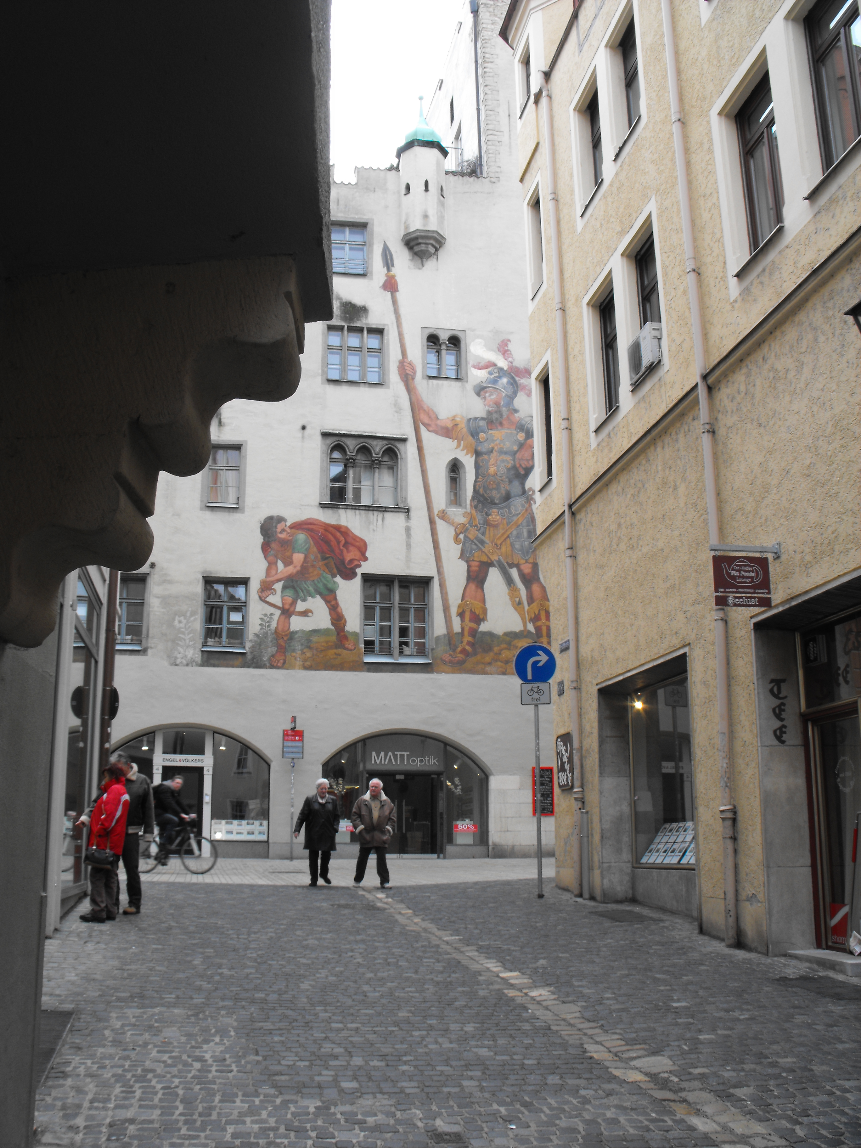 Regensburg, Germany